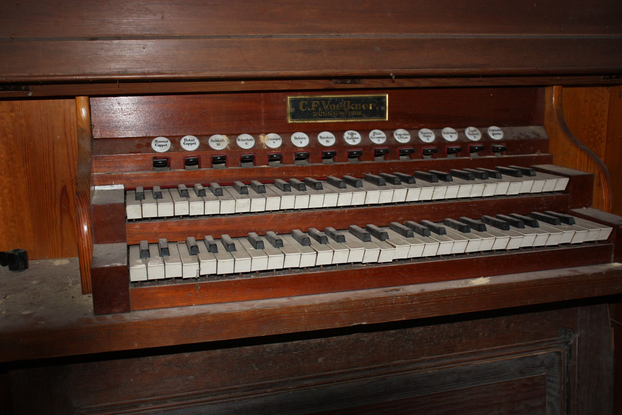 Organ in a church production C. F. Voelkner Dunnow Pom.